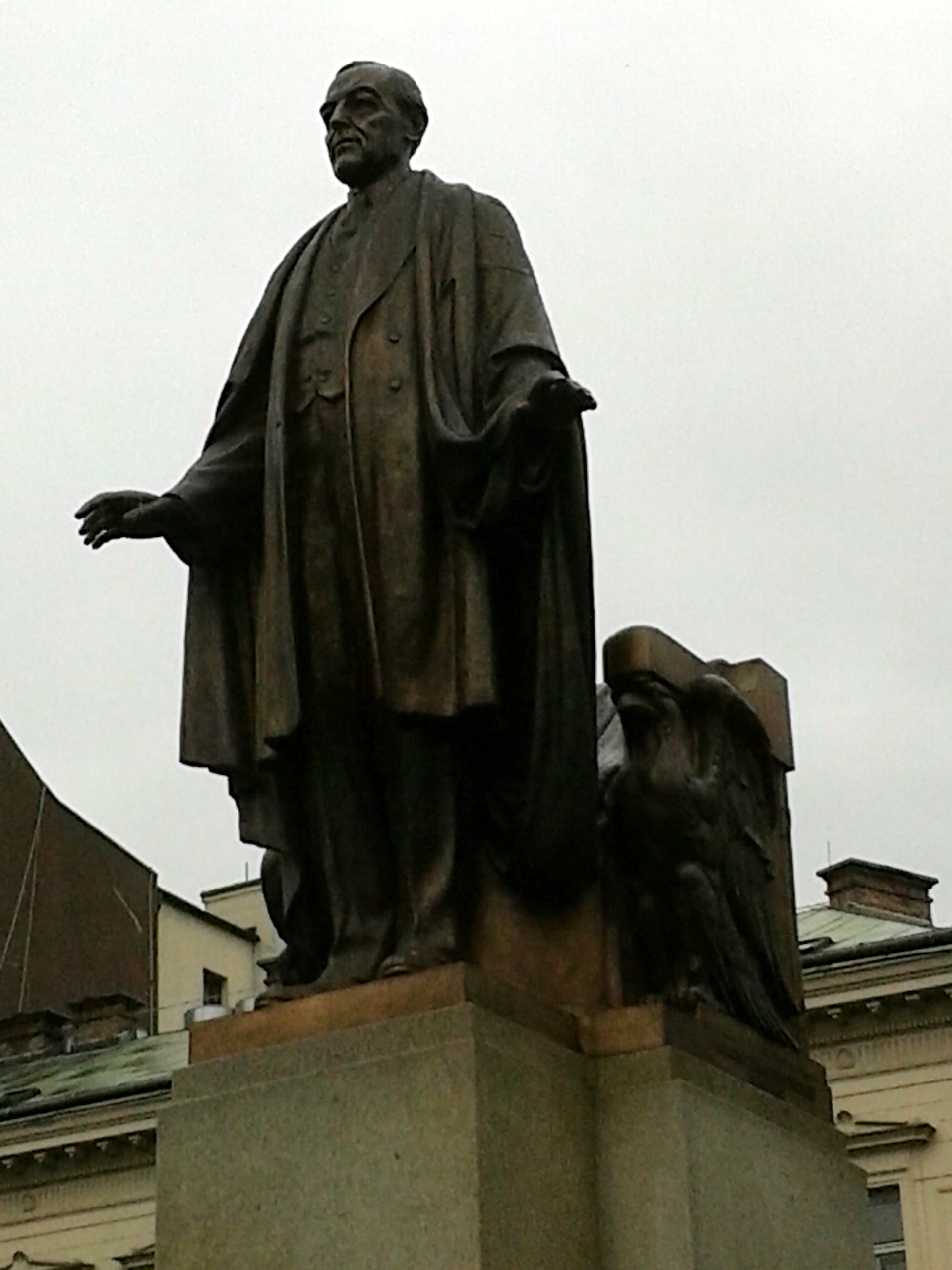 Memorial to US President Thomas Woodrow Wilson (* 1856 - † 1924), a replica of the original work (from 1928) by Albín Polášek (* 1879 - † 1965) - sculptor of the Czech origin. Authors replicas from 2011: Vaclav Frýdecký (* 1931), Michal Blažek (* 1955), Daniel Talavera (* 1969). Detail of the statue of the statesman. View from the left. Location: Prague, Vrchlického sets, Czech Republic.